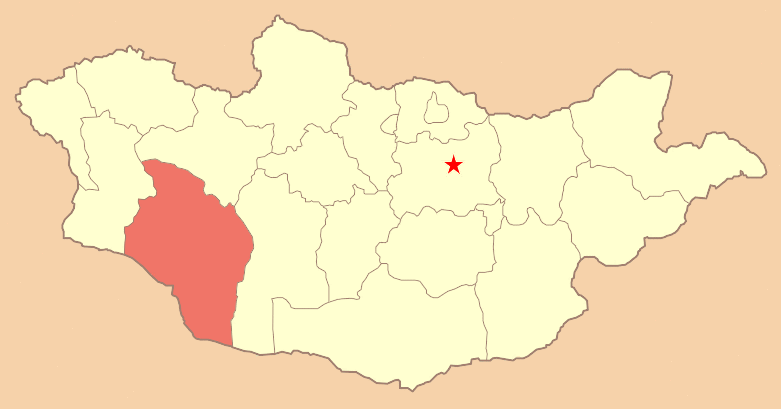 Map of Mongolia with Gobi-Altai Aimag highlighted.